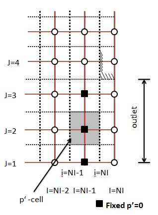 p’-cell at an exit boundary